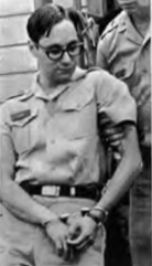 Captain Howard Levy being led from courtroom after sentencing for refusing to train Green Berets for Vietnam